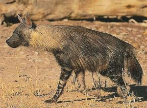 A Brown Hyena (Hyaena brunnea Syn. Parahyaena brunnea), courtesy of pistoleros.no